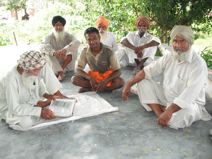 Baba Gajjan reading Gita Harinderpal Singh